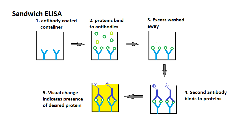 Basic Sandwich ELISA steps